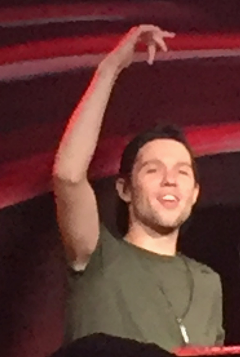 Atmozfears playing live on Q-Dance-Stage at Airbeat One Festival 2017